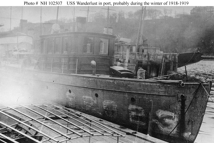 United States Navy patrol vessel USS Wanderlust (SP-923) awaiting return to her owner in 1919